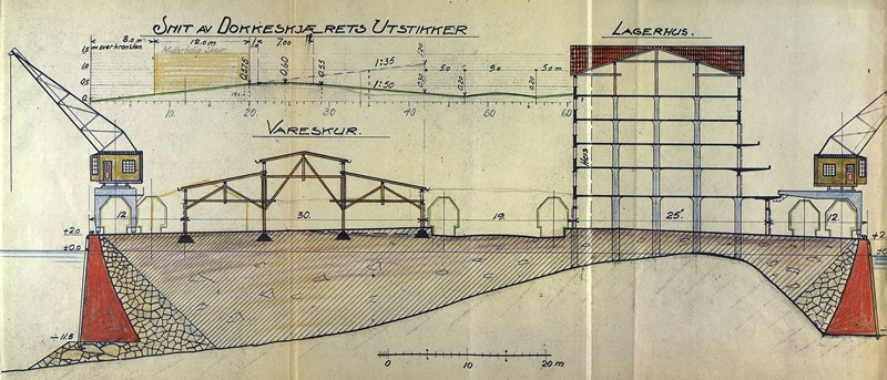 Cross section of the Dokkeskjær quay, dated 1916. From the archives of Bergen Harbour engineer, stored at the City Archive of Bergen.